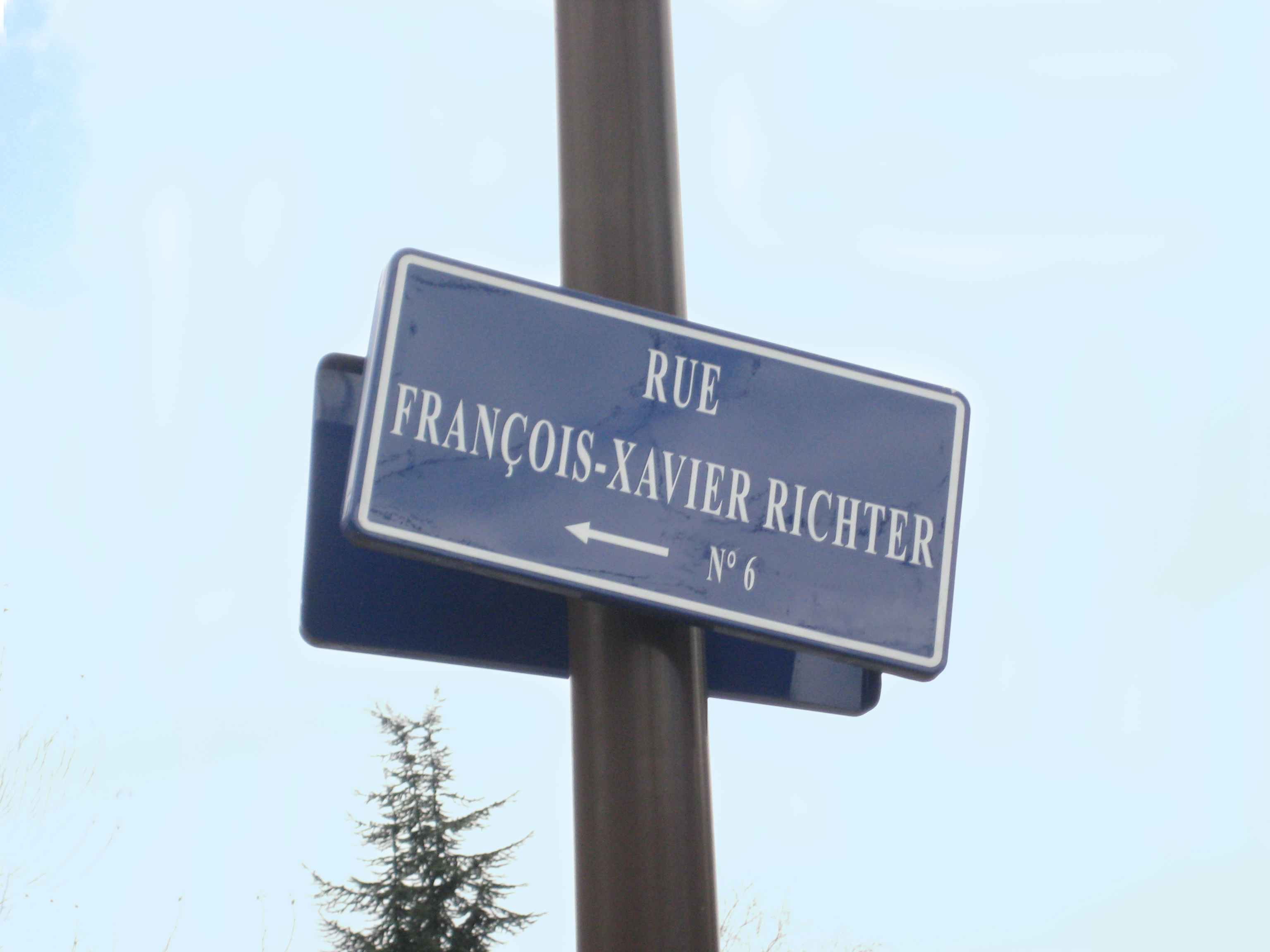 Street sign of Rue Francois Xavier Richter in Strasbourg